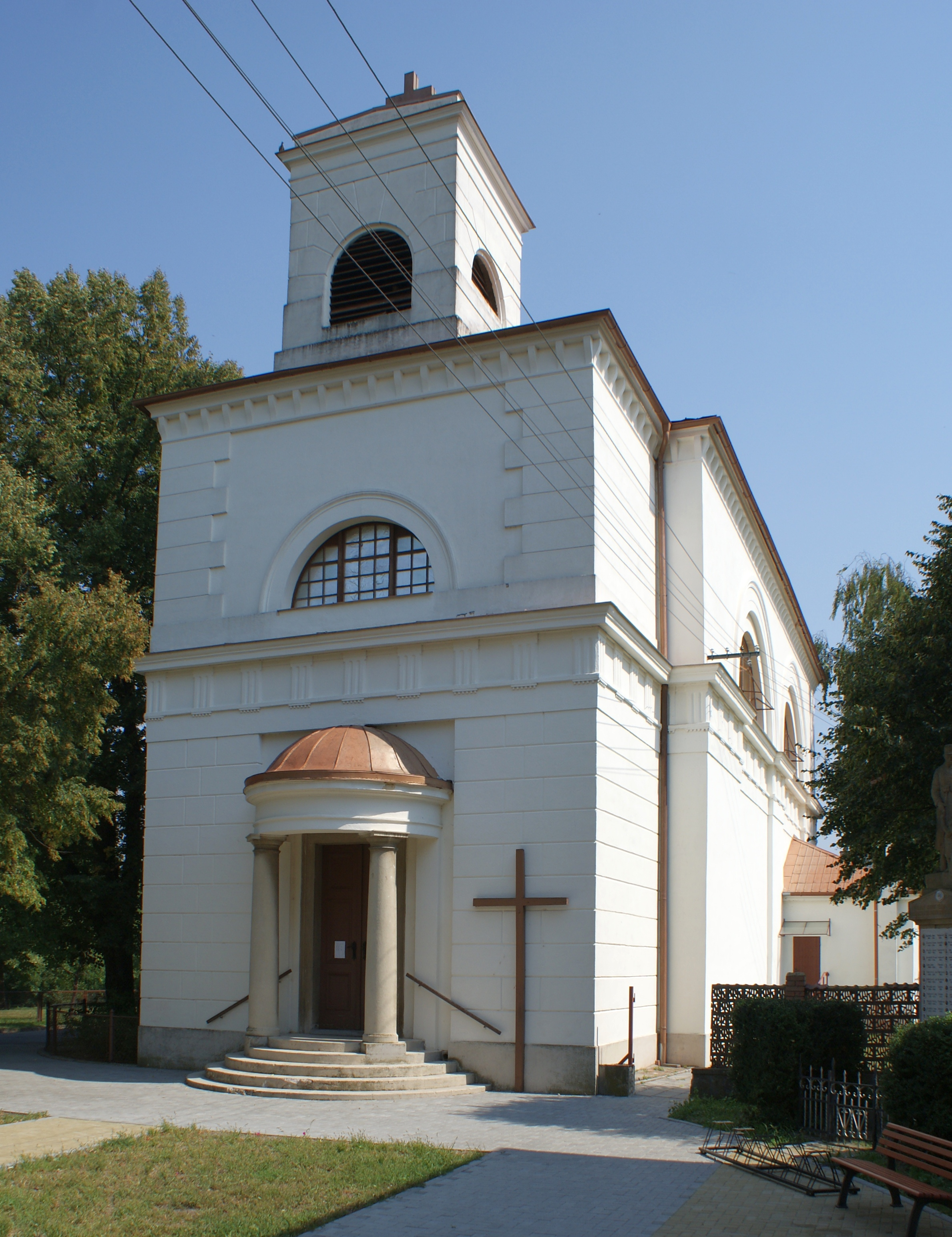 Hlohovec, a village in Břeclav District, Czech Republic, church